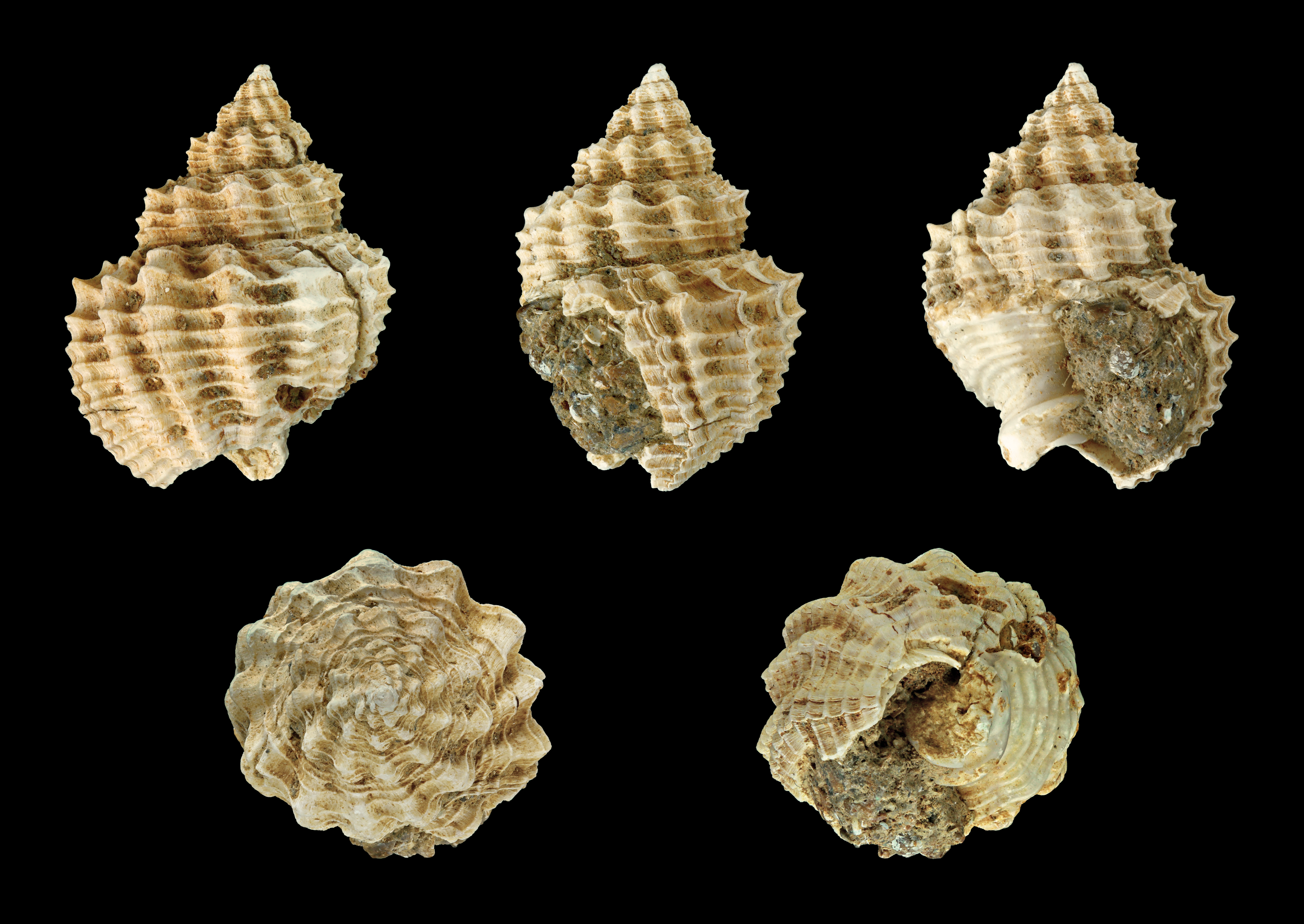 Cancellate Nutmeg; Length 2.4 cm; Pliocene; Baschi, Italy; Shell of own collection, therefore not geocoded. Dorsal, lateral (right side), ventral, back, and front view.